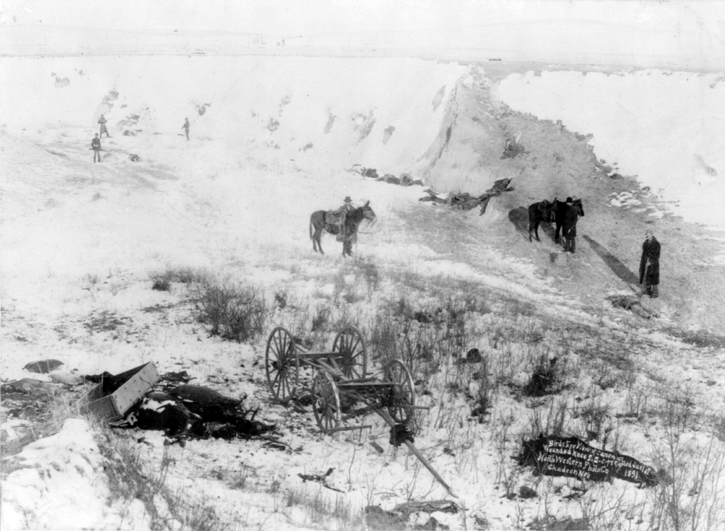 Birds-eye view of canyon at Wounded Knee, S.D. - Dead horses and Indians